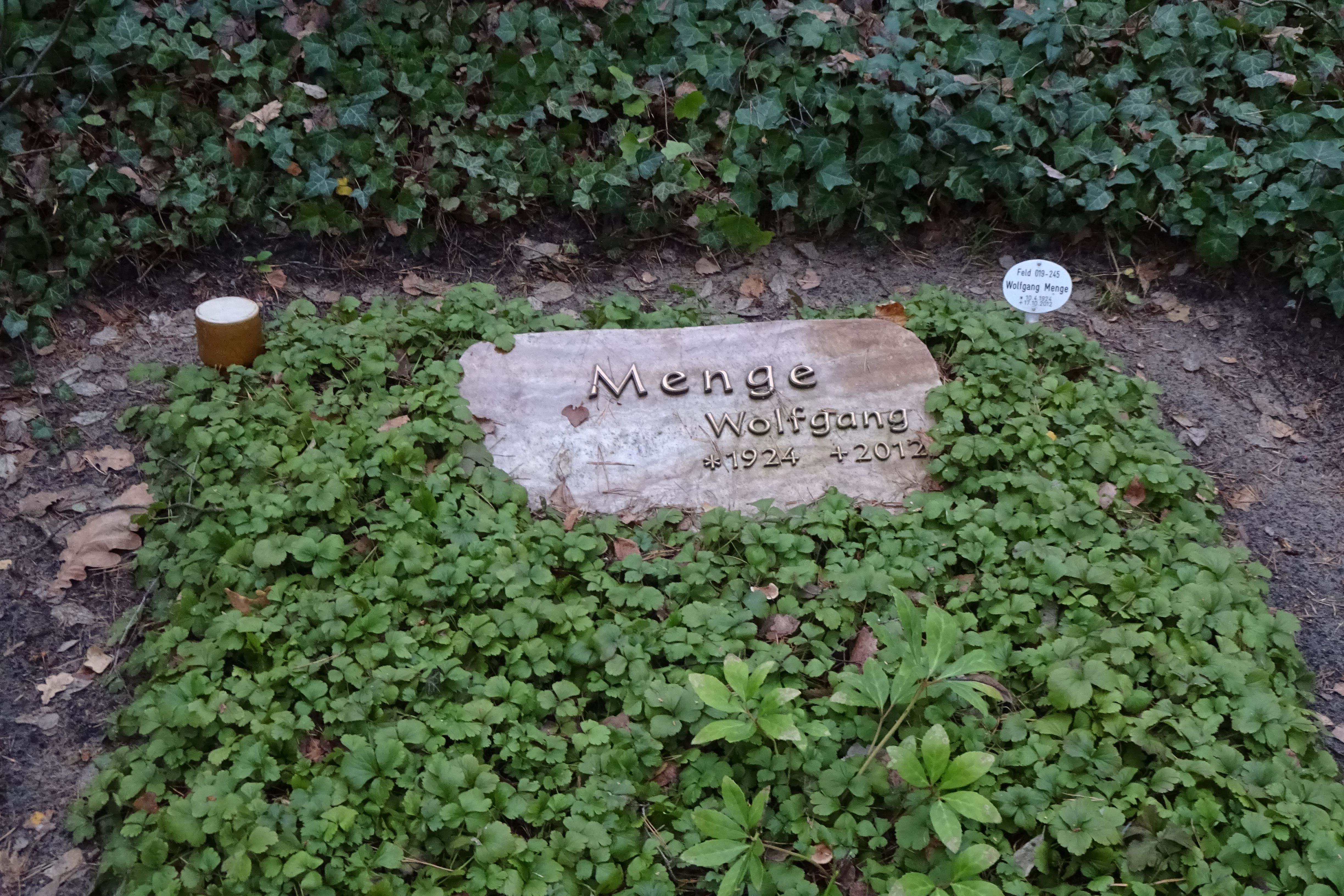 Grave of German television director and journalist Wolfgang Menge in Waldfriedhof Zehlendorf in Berlin